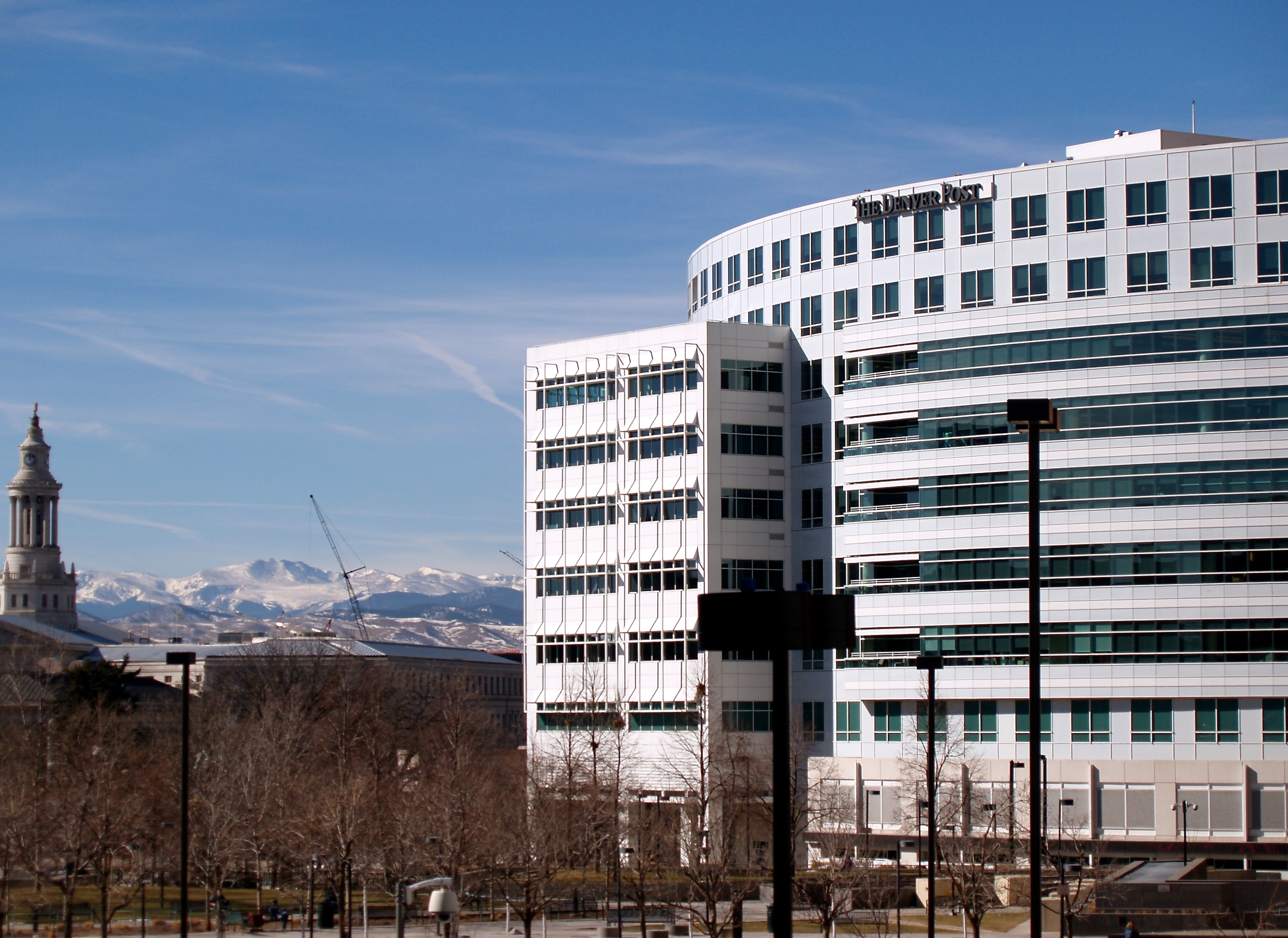 Denver Post building in Denver, Colorado.